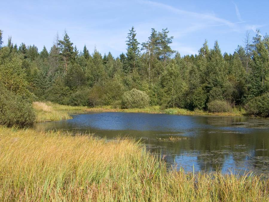 Forest near Minsk, Belarus.